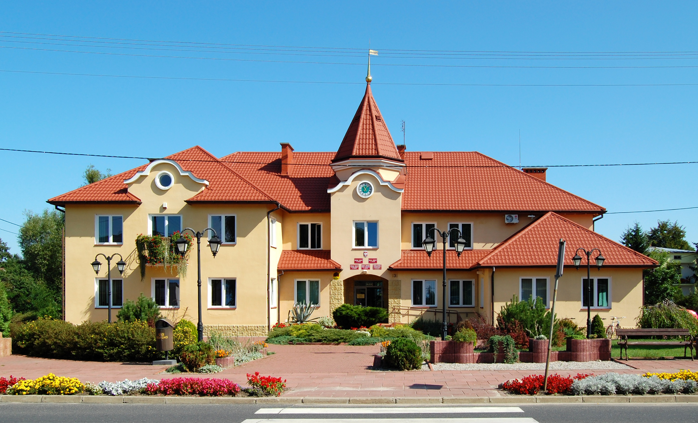 Seat of Gmina Górzno built in 2008, Górzno, Masovian Voivodeship, Poland.